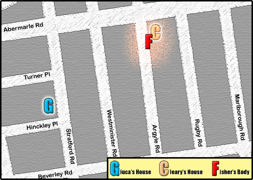 Corrected map showing Mark Fisher's body in relation to John Giuca's and Albert Cleary's homes. Created from scratch with Adobe Photoshop CS8 on Mac OS X 10.6.